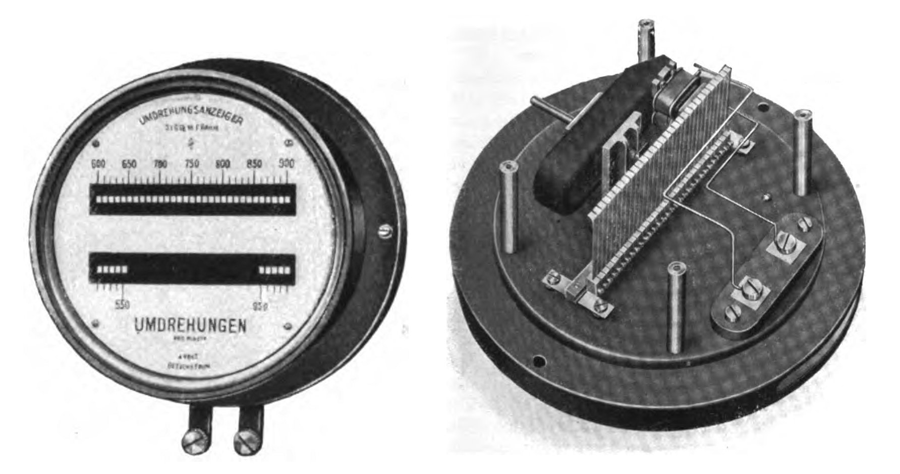 A resonant-reed frequency meter from 1921. The reed frequency meter, an obsolete technology, was used to measure the frequency of alternating currents below 1000 Hz. It was used to check the frequency of alternators supplying local power grids and the higher frequency AC used for traction motors on streetcars and ships. It consists of a small electromagnet placed next to a steel strip cut into reeds of graduated lengths. When the alternating current to be measured is applied to the electromagnet it vibrates the strip. The reed which is resonant at the applied frequency will absorb energy and vibrate with large amplitudes while the other reeds will hardly vibrate at all. The ends of the reeds project through the face of the instrument next to a graduated frequency scale. Alterations to image: enlarged image of internal parts so it was the same size as face, and moved it to right of face.